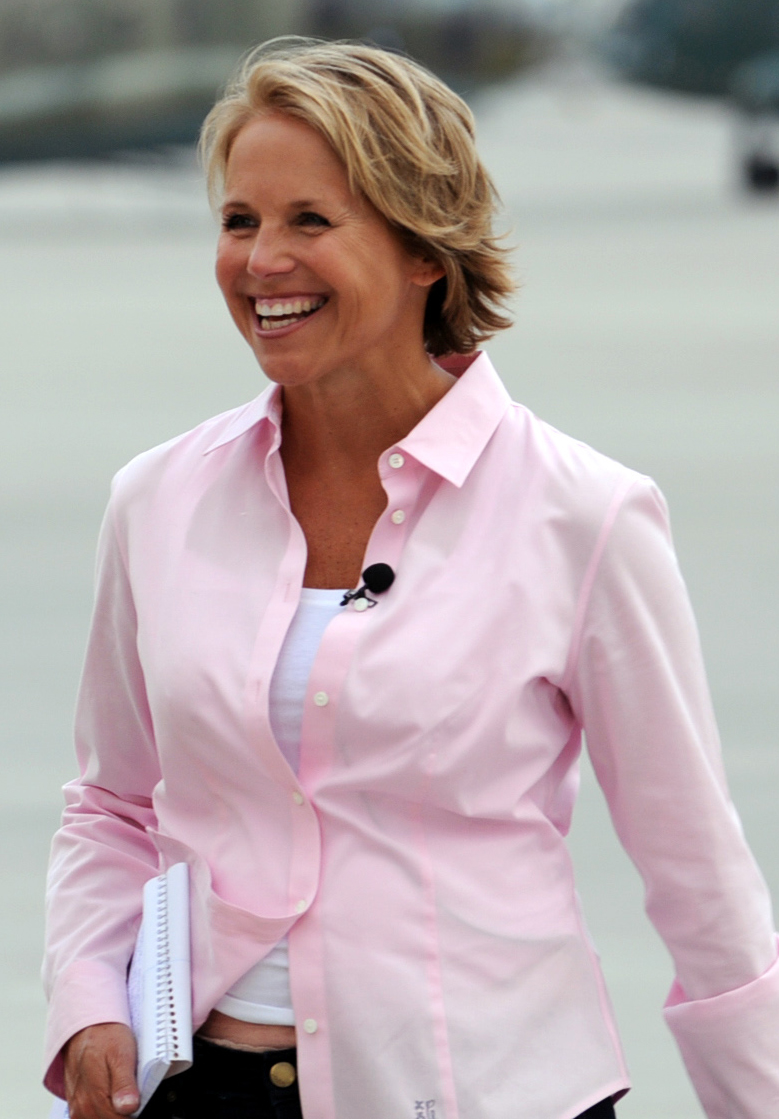 Katie Couric in Kabul, Afghanistan in August 2010.